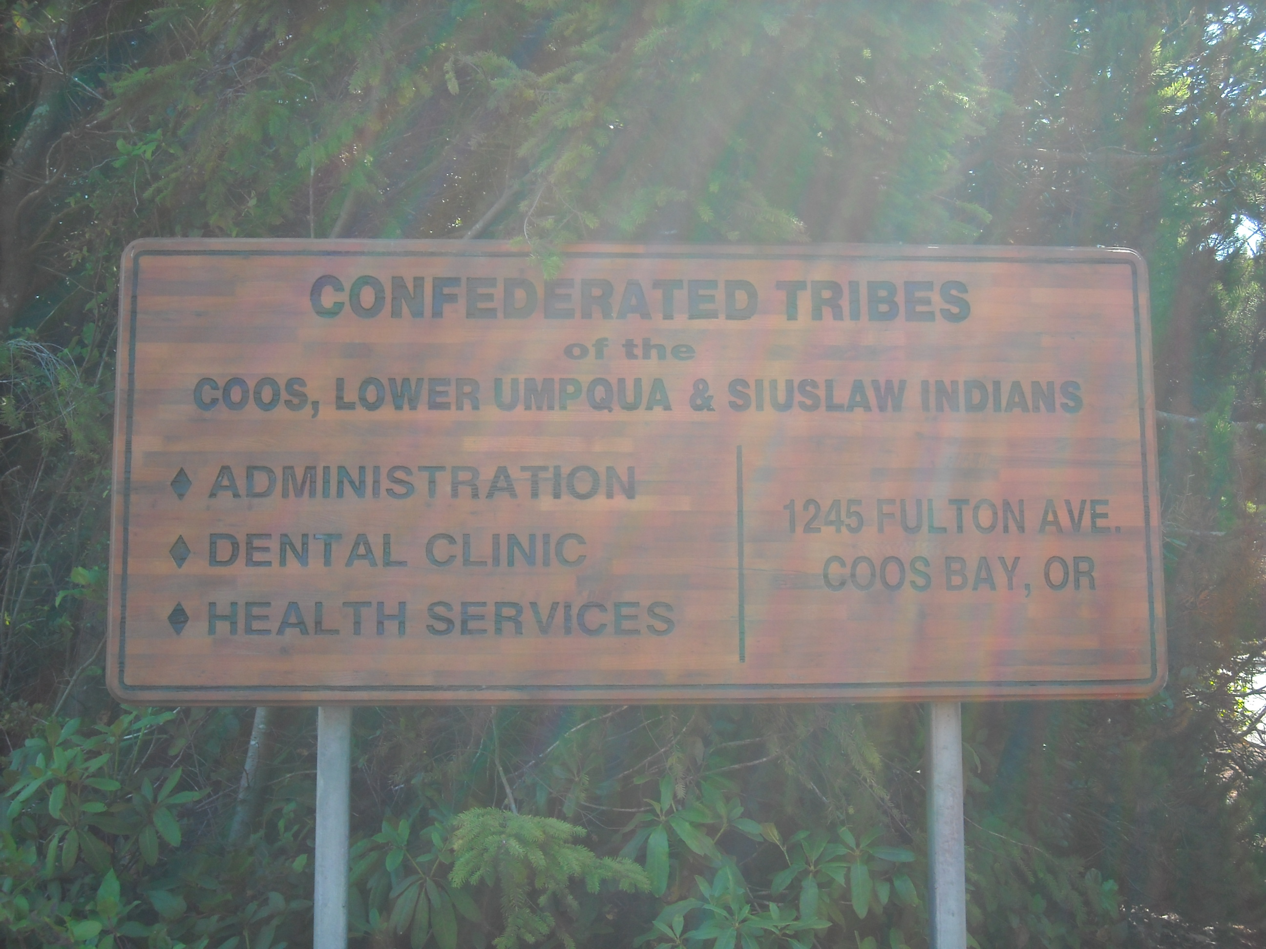 Sign